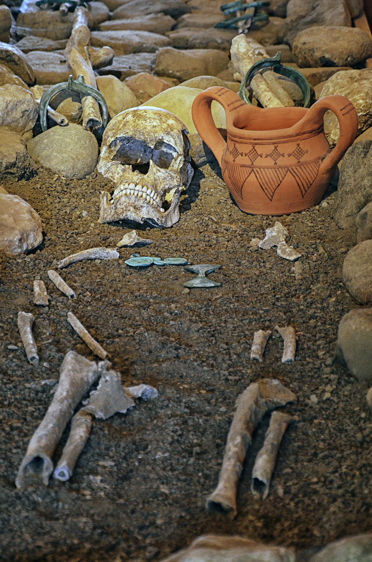 A reconstructed grave of the Kamenicë Tumulus, Albania in the exhibition building (Devollite pottery on the right)